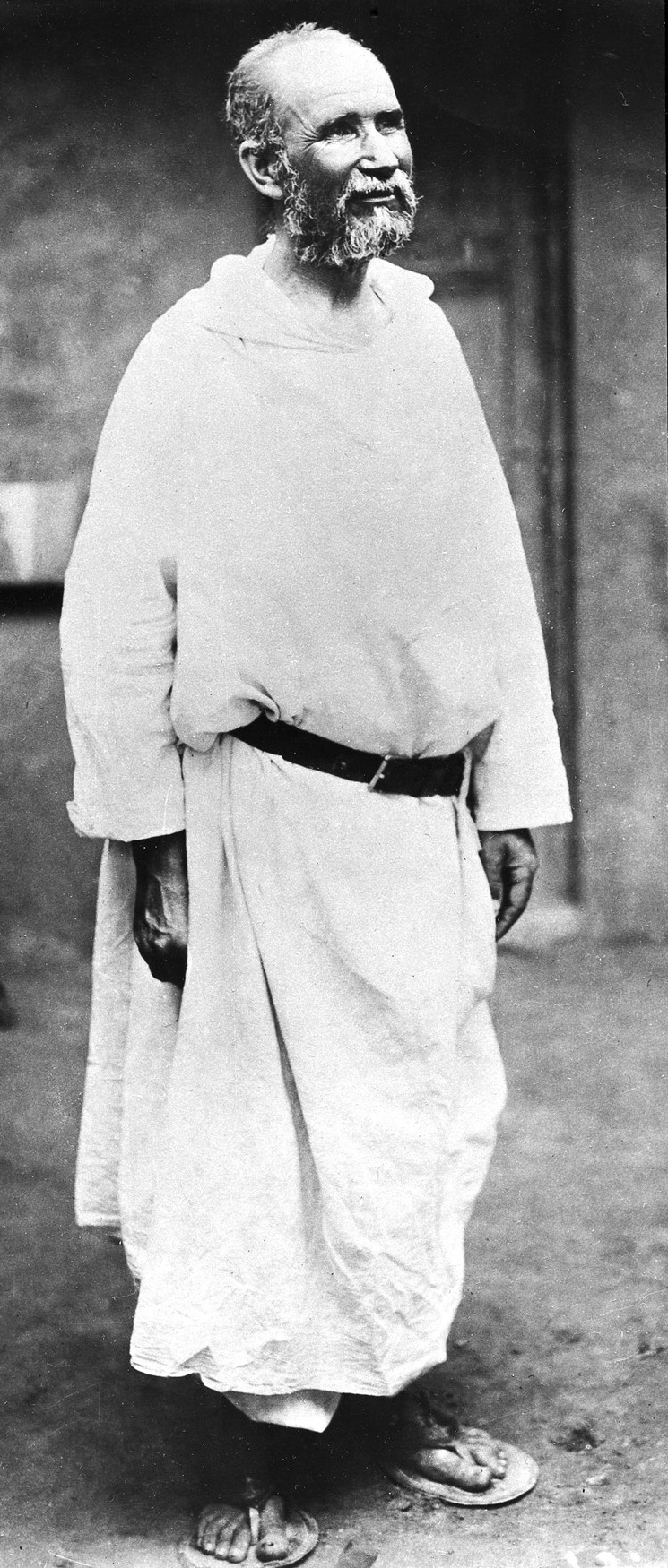 Last living photo of Charles de Foucauld.